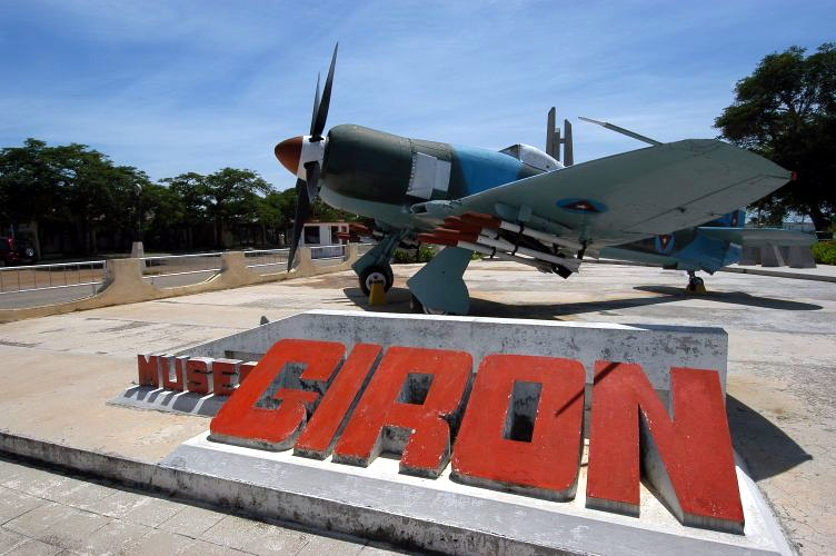 A Cuban Hawker Sea Fury FB.11 fighter ("FAR 541") at the Playa Giron Museum at Matanzas, Cuba. It wears a colour scheme, not related to the original scheme used during the service years in 1958/59-1961.